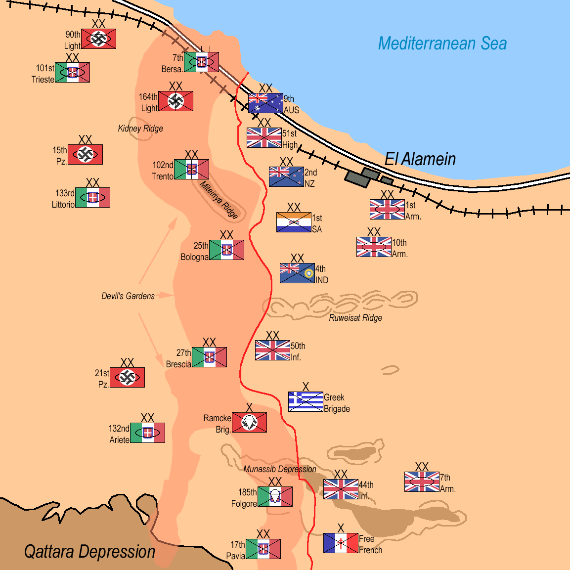 Second Battle of El Alamein, Deployment of Forces on October 23rd, 1942